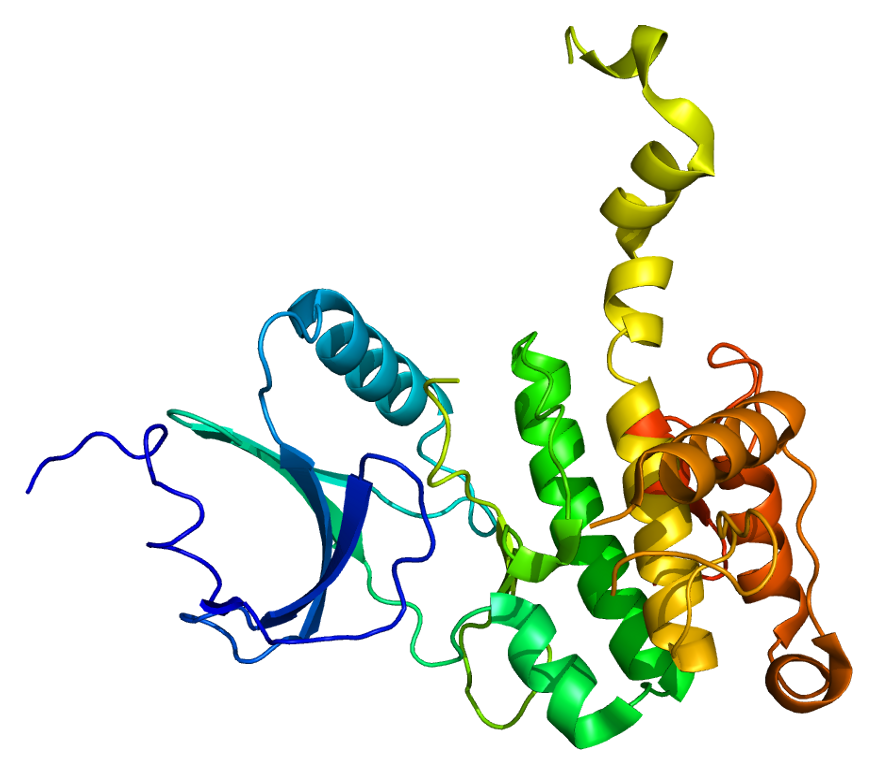 Structure of the MKNK2 protein. Based on PyMOL rendering of PDB 2ac3.